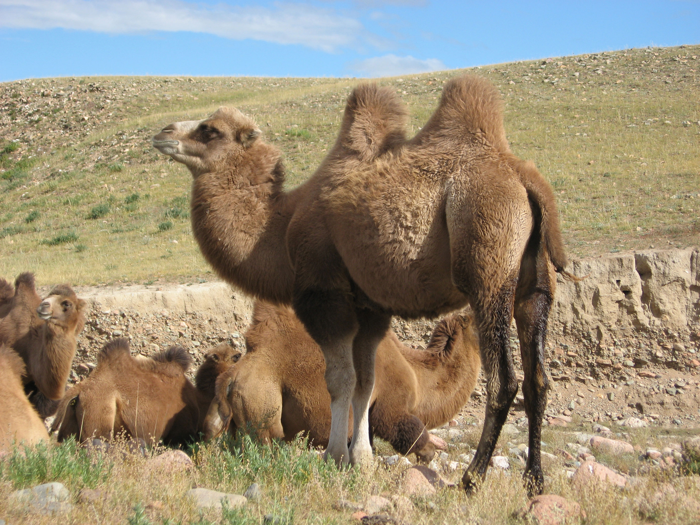 A camel at the Zagzuu creek near Bürentogtokh sum center, Mongolia, September 2006